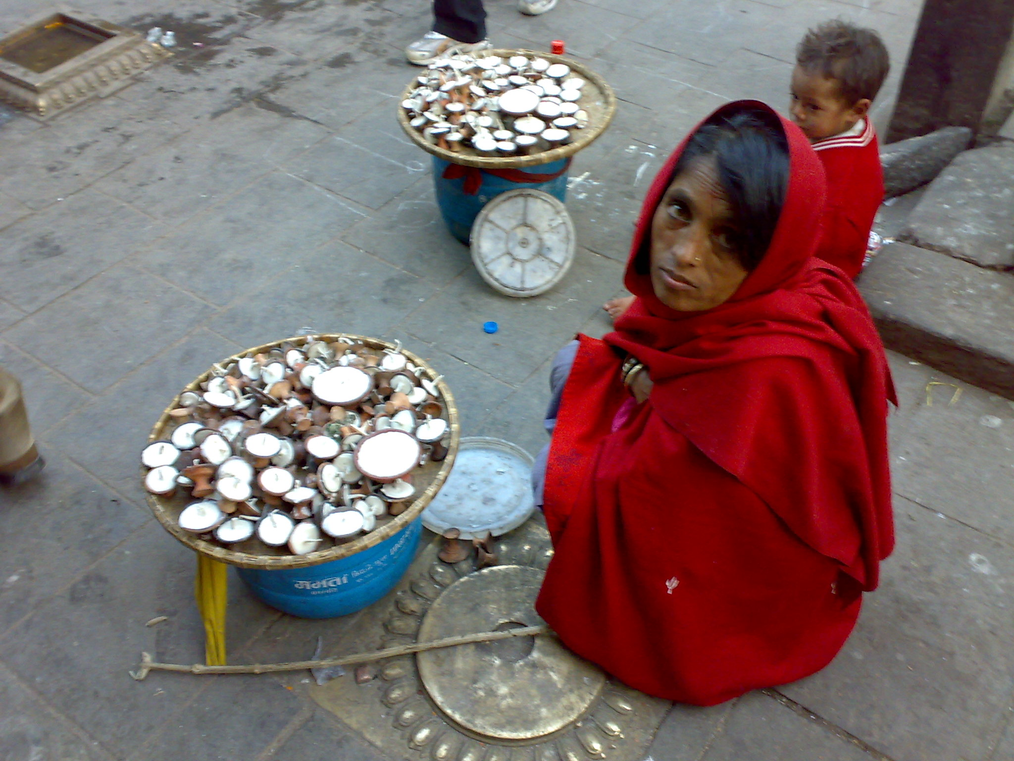 Candle pedlar in nepal